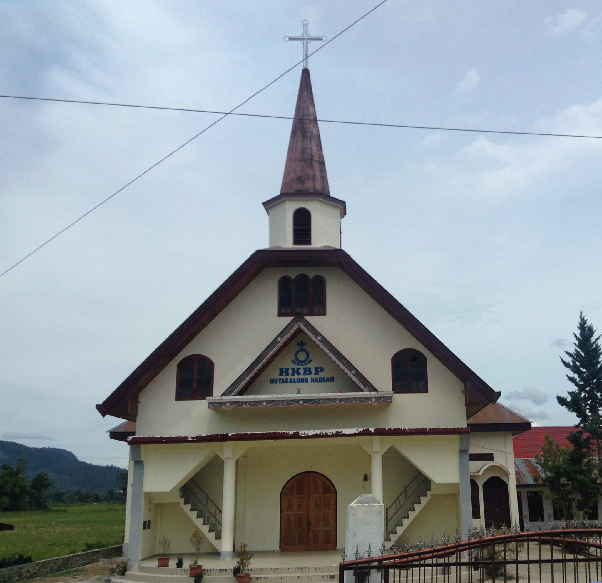 HKBP Hutagalung Harean, Church in Hutagalung, Tarutung, North Tapanuli